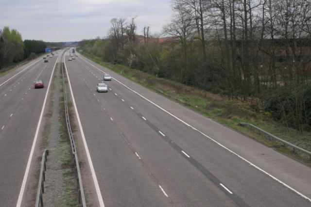 Fleet. Looking northeast along the M3 from the bridge on the B3013. The rest of the square is a mixture of woods, farmland and some office blocks to the south.